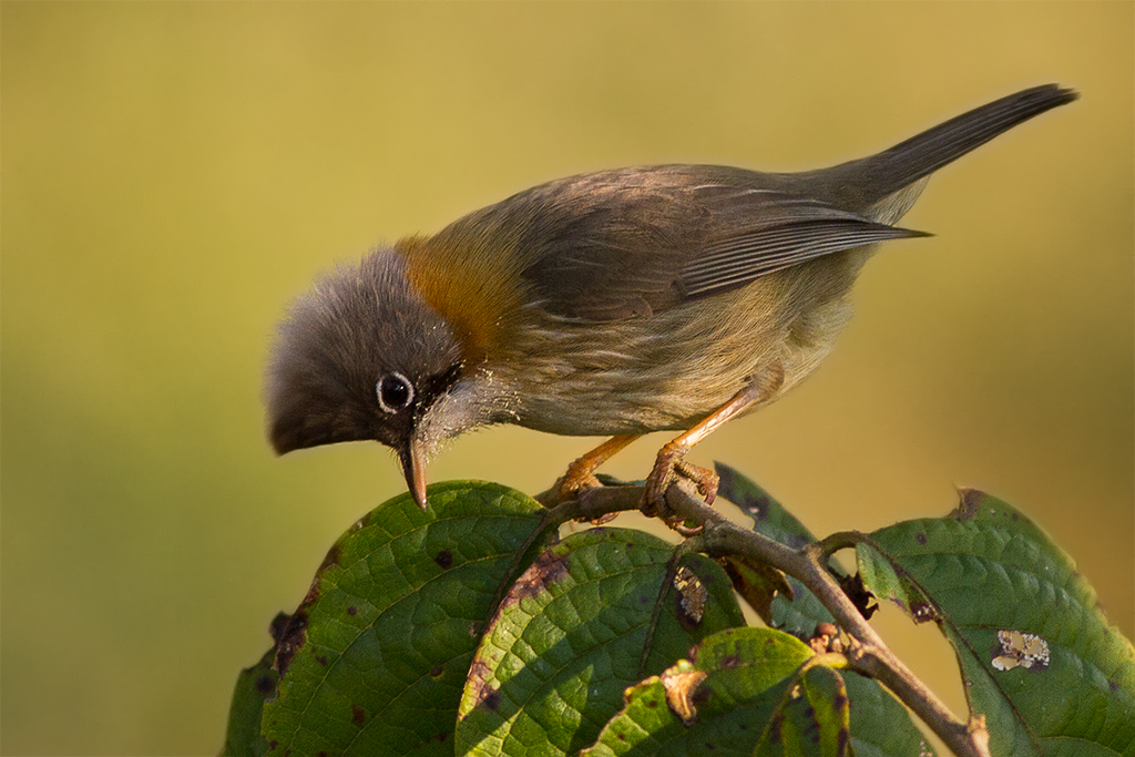 A Whiskered Yuhina at Eaglenest Wildlife Sanctuary, Arunachal Pradesh, India.